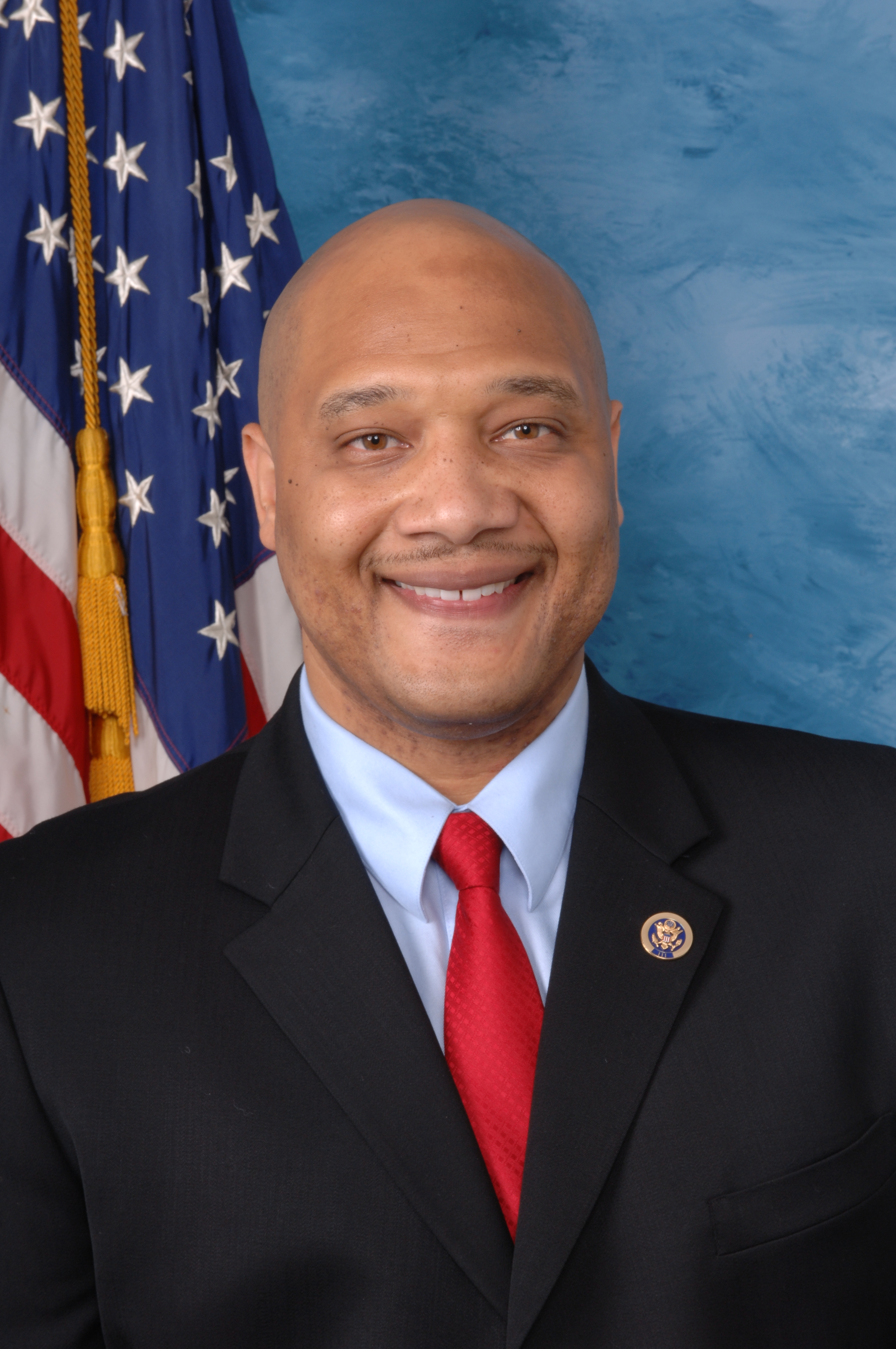 Official portrait of André Carson, United States Representative for Indiana's 7th congressional district.